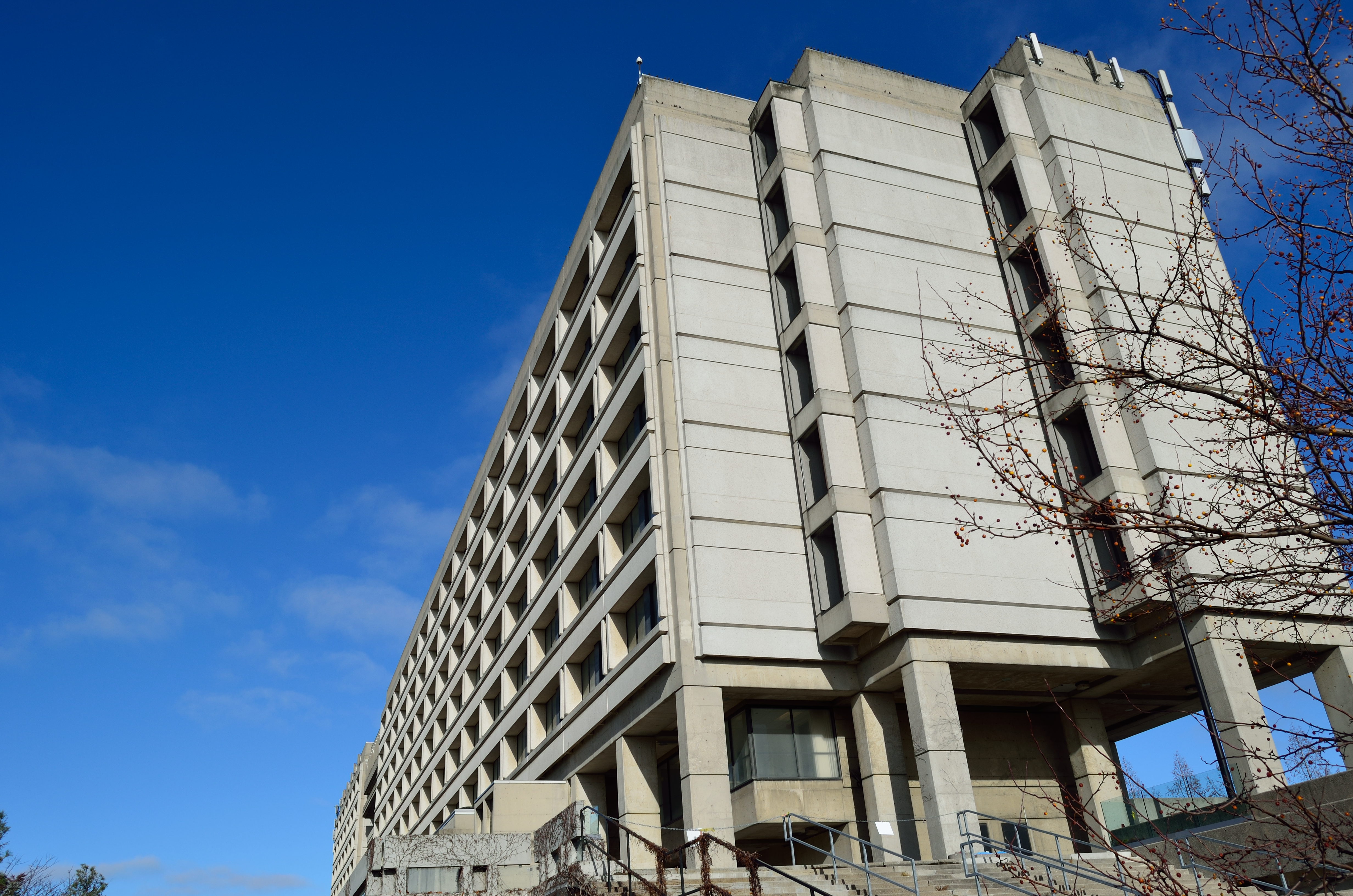 Ross Building at York University